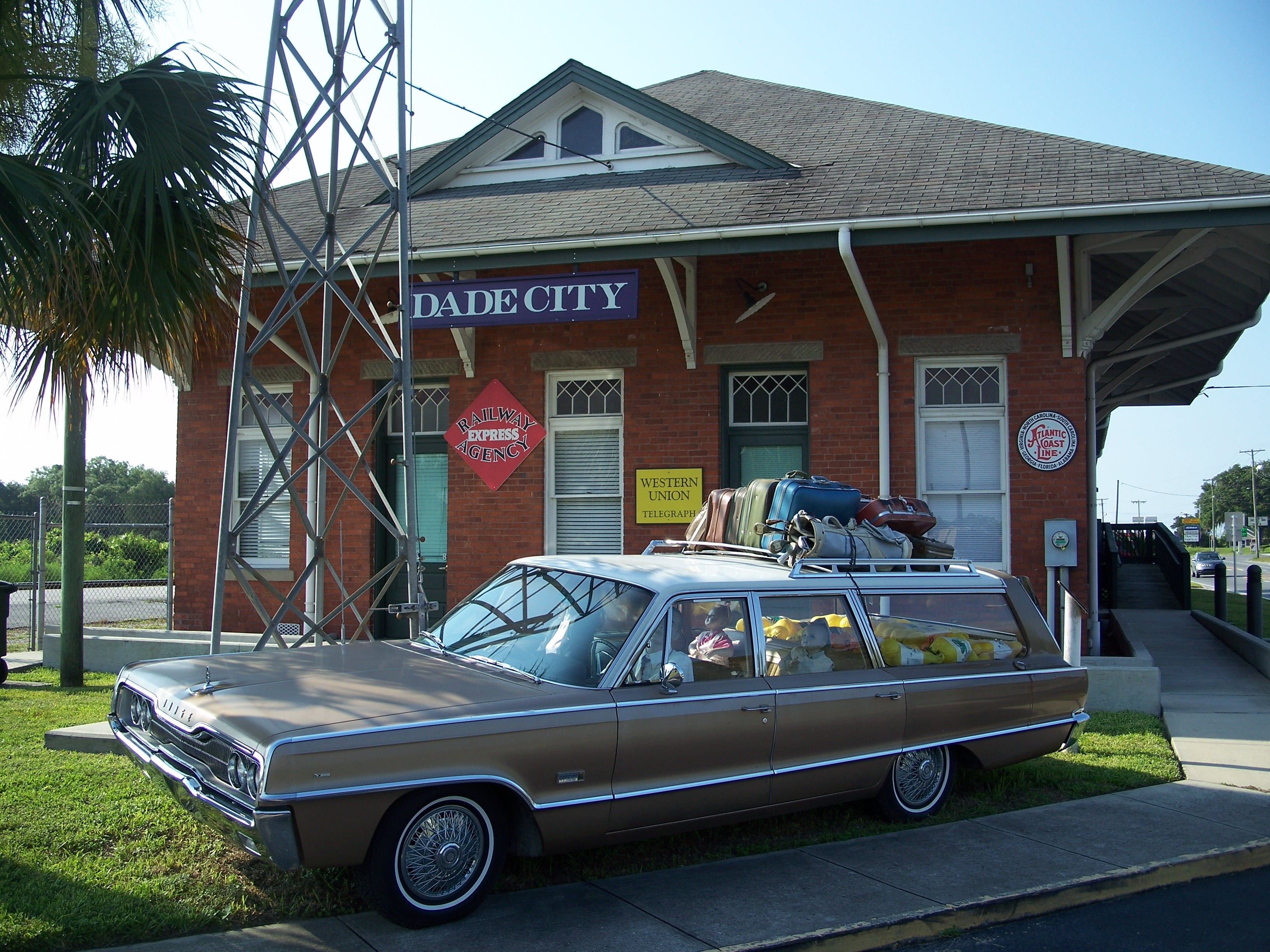 Dade City: Dade City Atlantic Coast Line Railroad Depot